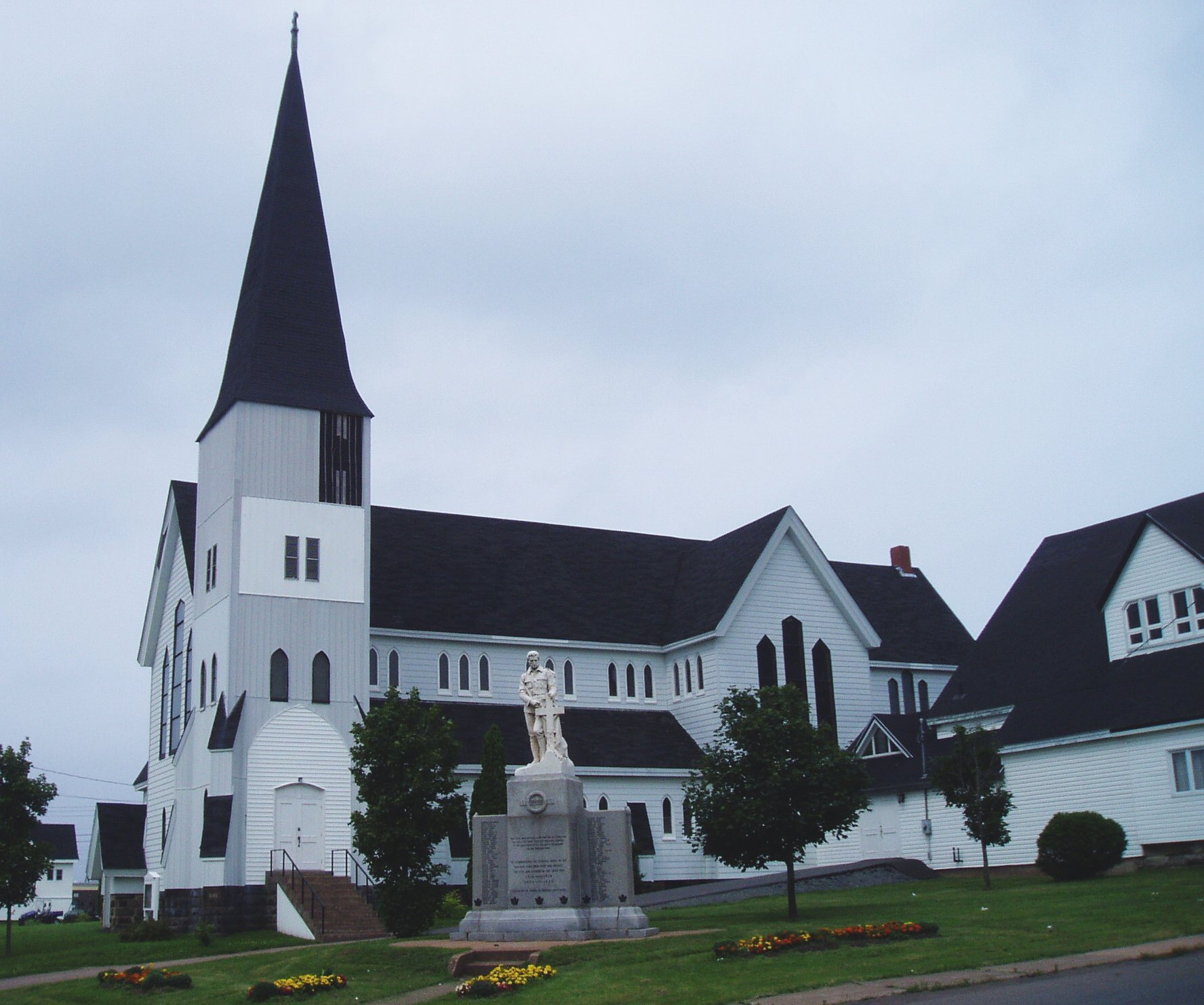 All Saints Anglican Church in Springhill, Nova Scotia. Taken by SimonP